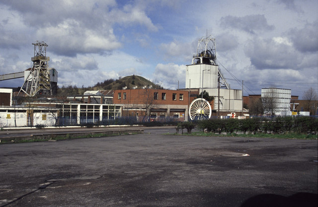 Littleton Colliery Position's approximate as it's all gone now.